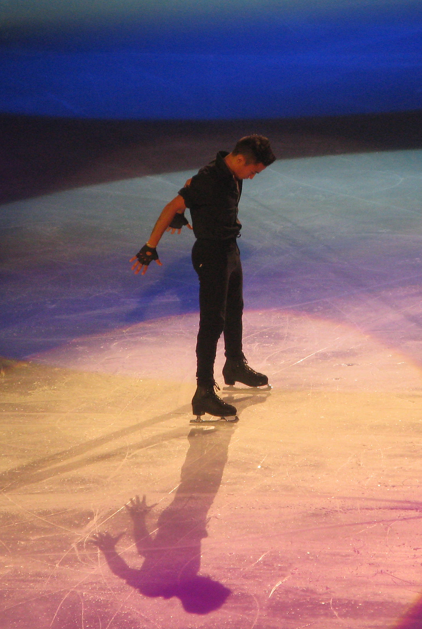 Skater Florent Amodio at the figure skating gala exhibition of 2013 Trophée Éric Bompard in Bercy, Paris.